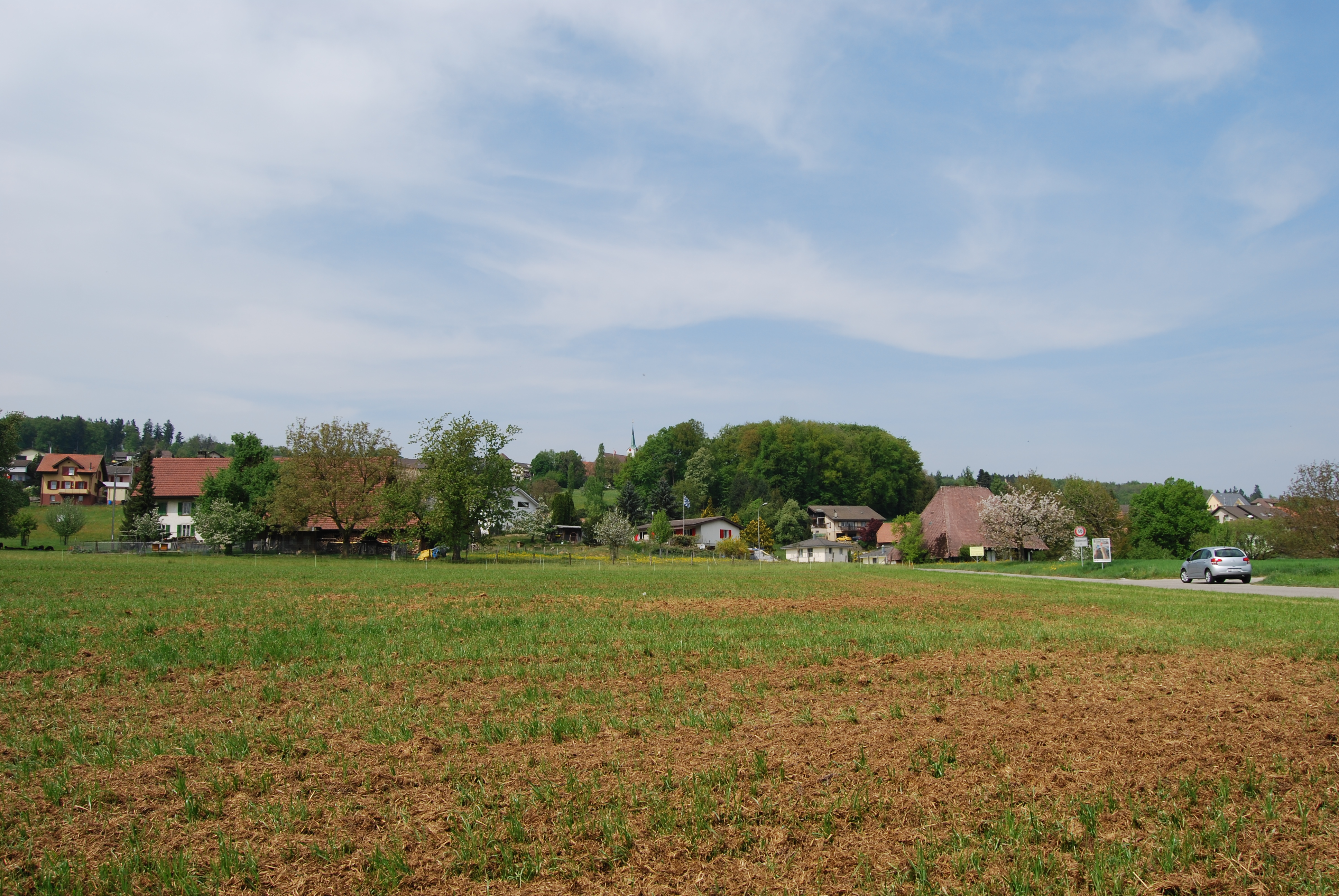 Walterswil, canton of Solothurn, SwitzerlandEsperanto: Walterswil, Kantono Soloturno, Svislando